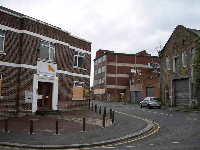 Rope Yard Rails, SE18. At the junction of Warren Lane. It looks as though there is some redevelopment planned here. The buildings on the right back onto Beresford Street. 463990